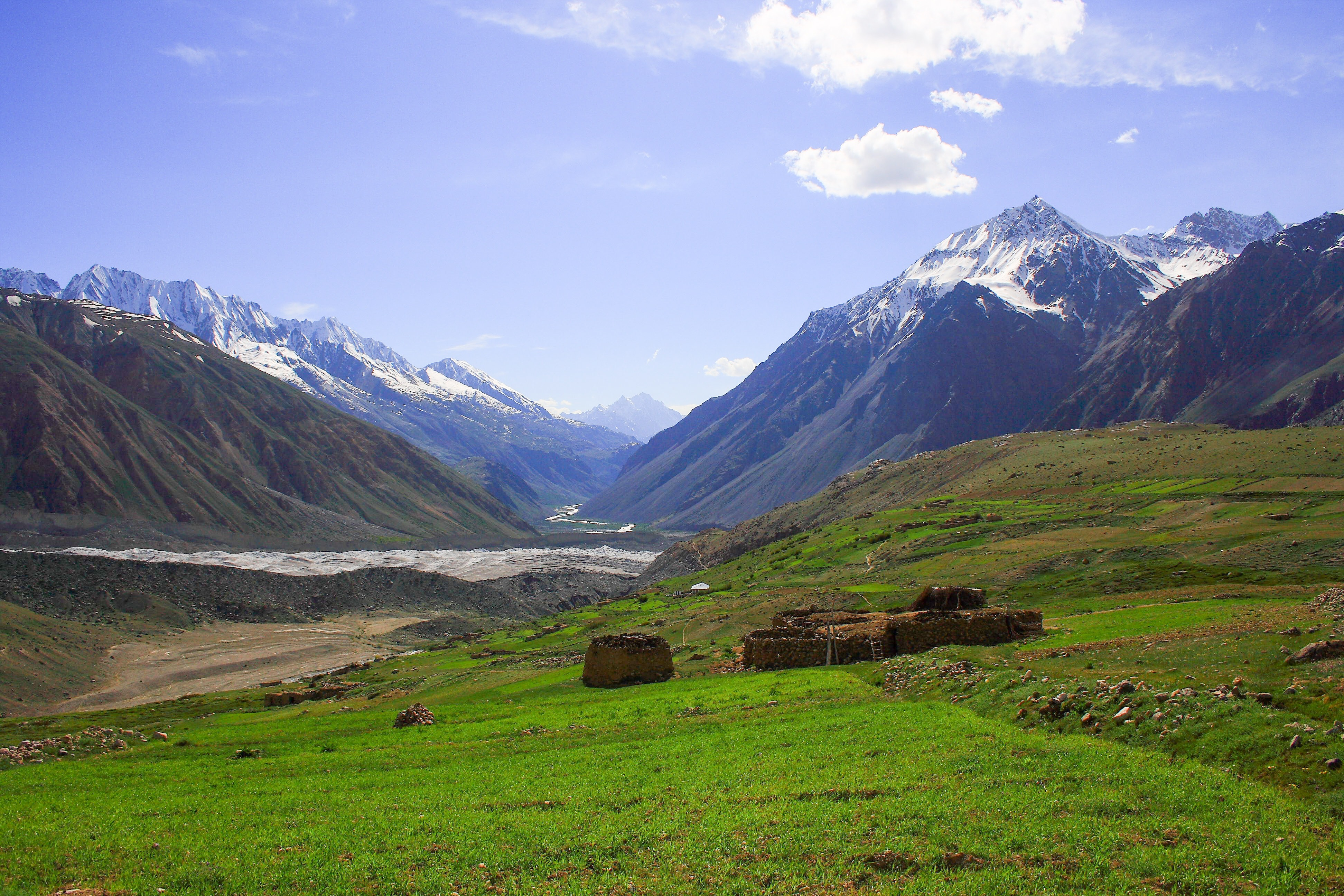 Landscape of Chikaar, that is located in Baroghil valley and usually climbers and trekkers cross Darkot Pass from this way.